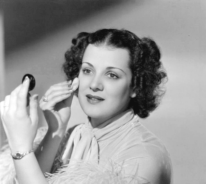 Photo of actress Thelma Leeds from a 1937 ad for Max Factor cosmetics. Note this is a larger, better quality photo in greyscale than the image in the trade magazine. Max Factor did not mark their ad as copyrighted. The Screenland copyright covered only the editorial content of the magazine, not the ads placed in it.